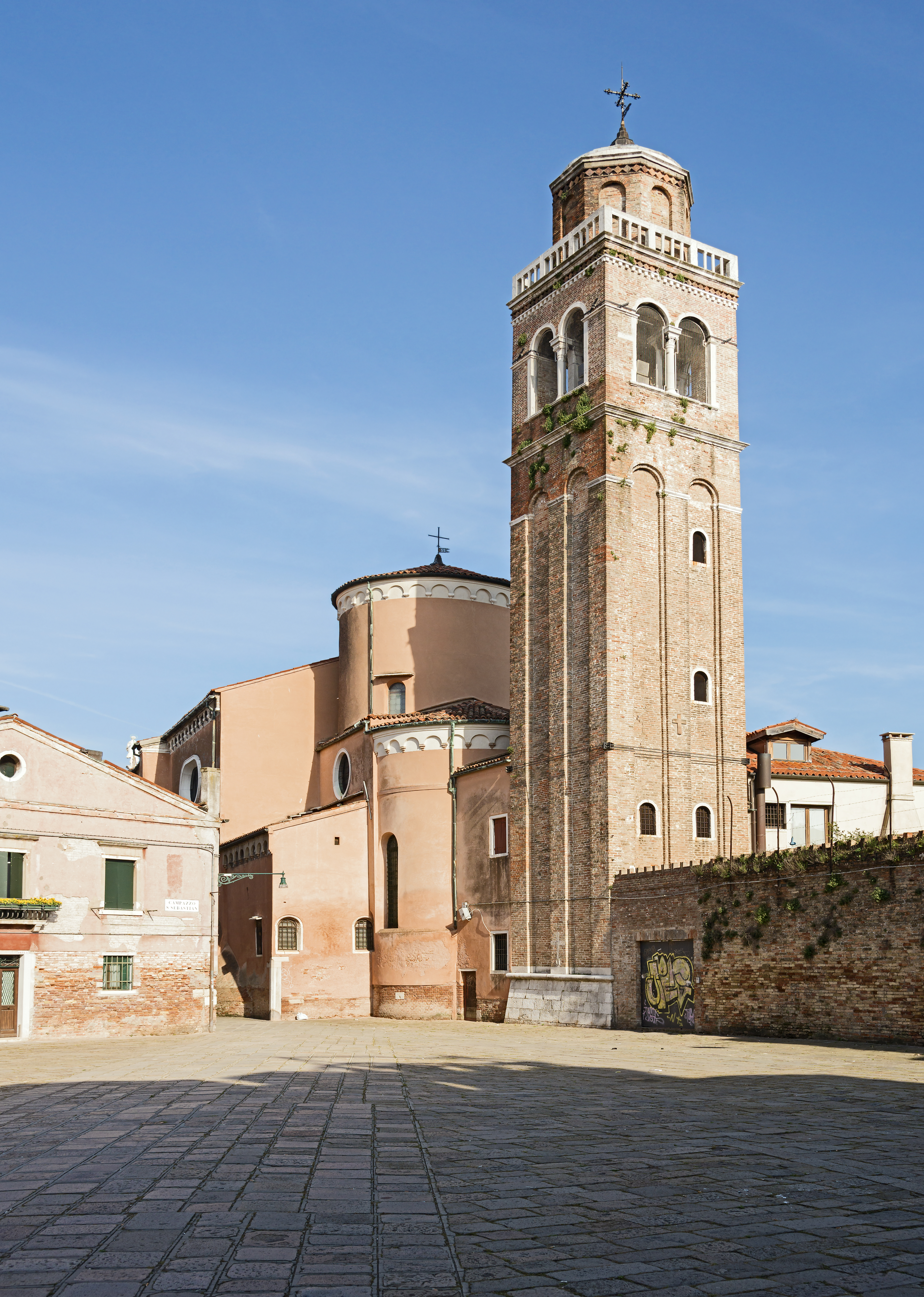 San Sebastien Church in Venice - Belltower and Rear View.